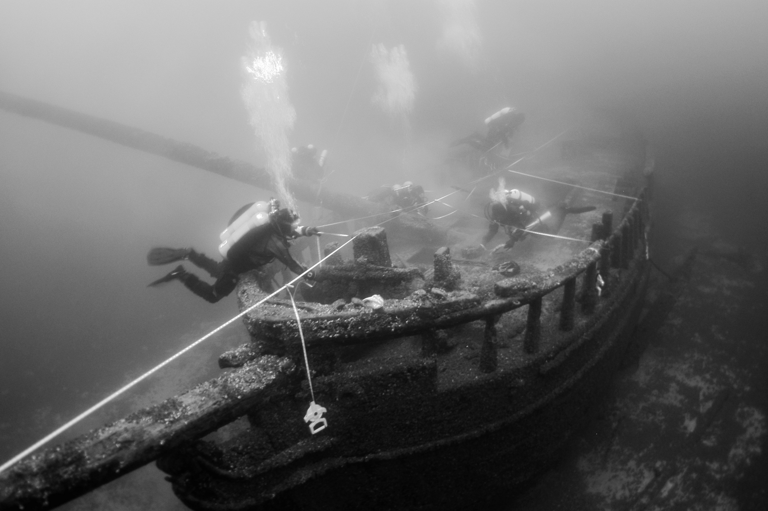 Wreck of the schooner Northerner in Lake Michigan